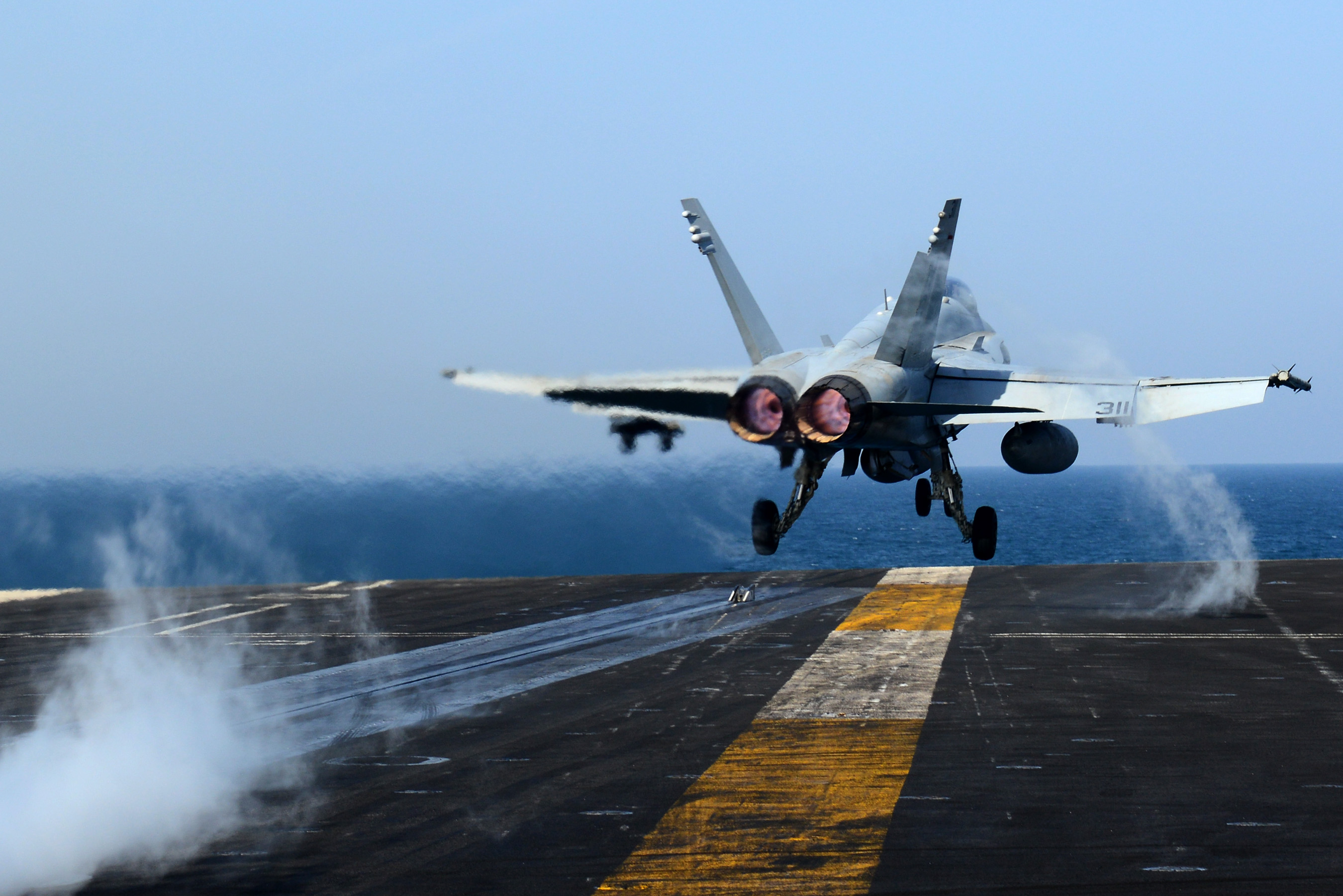 U.S. 5TH FLEET AREA OF RESPONSIBILITY (Jan. 1, 2013) An F/A-18C Hornet of the Warhawks of Strike Fighter Squadron (VFA) 97 launches from the aircraft carrier USS John C. Stennis (CVN 74). John C. Stennis is deployed to the U.S. 5th Fleet area of responsibility conducting maritime security operations, theater security cooperation efforts and support missions for Operation Enduring Freedom. (U.S. Navy photo by Mass Communication Specialist 2nd Class Kenneth Abbate/Released) 130101-N-OY799-046 Join the conversation navylive.dodlive.mil